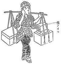 A picture of tinker at japanese edo period.